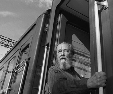 Aleksandr Solzhenitsyn, Russian writer and Nobel prize winner, looks out from a train, in Vladivostok, summer 1994, before departing on a journey across Russia. Solzhenitsyn returned to Russia after nearly 20 years in exile. Photo by Mikhail Evstafiev